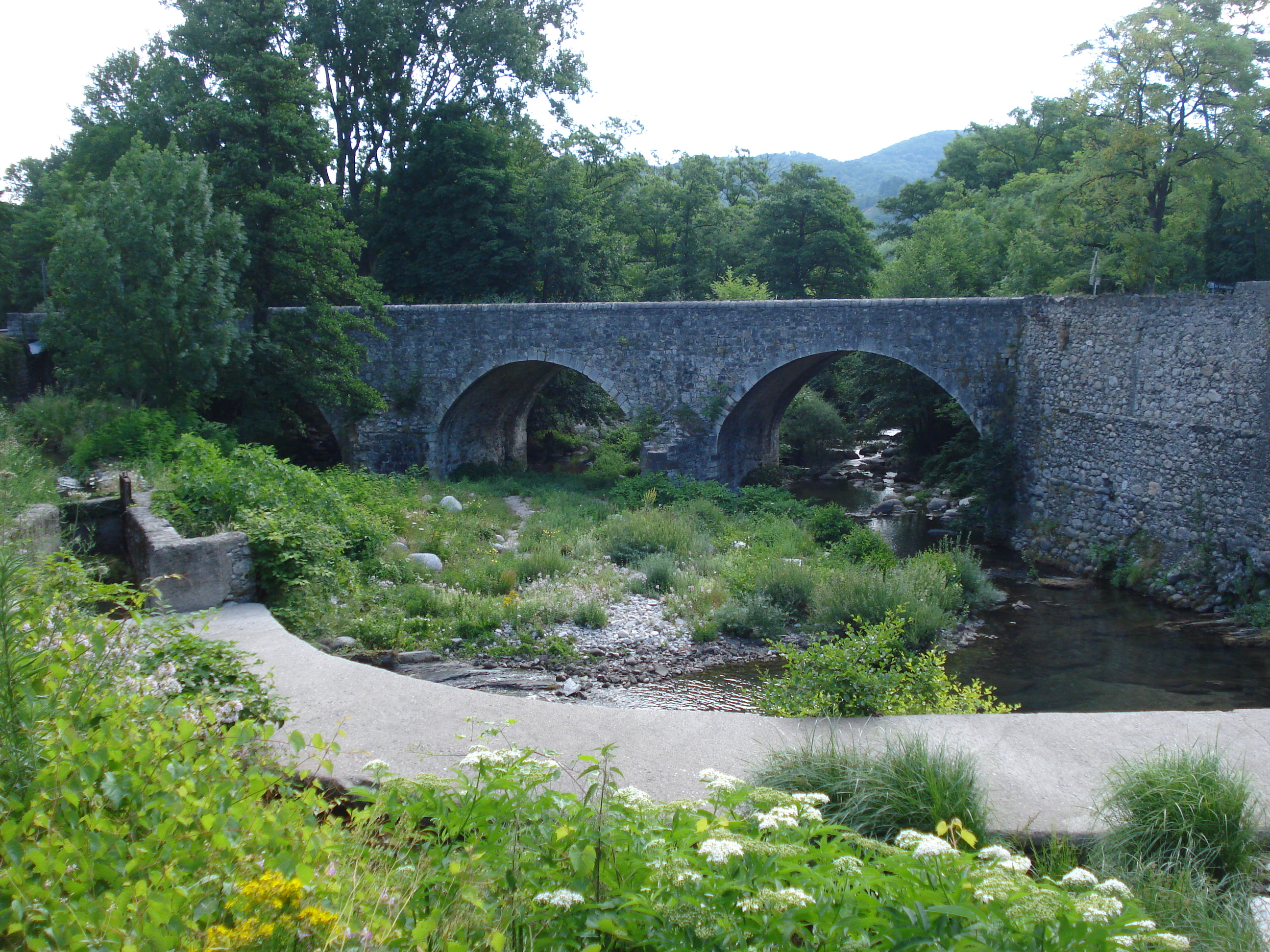 Le Coudoulous (affluent de l'Arre) à Avèze, vieux pont et bief-barrage.